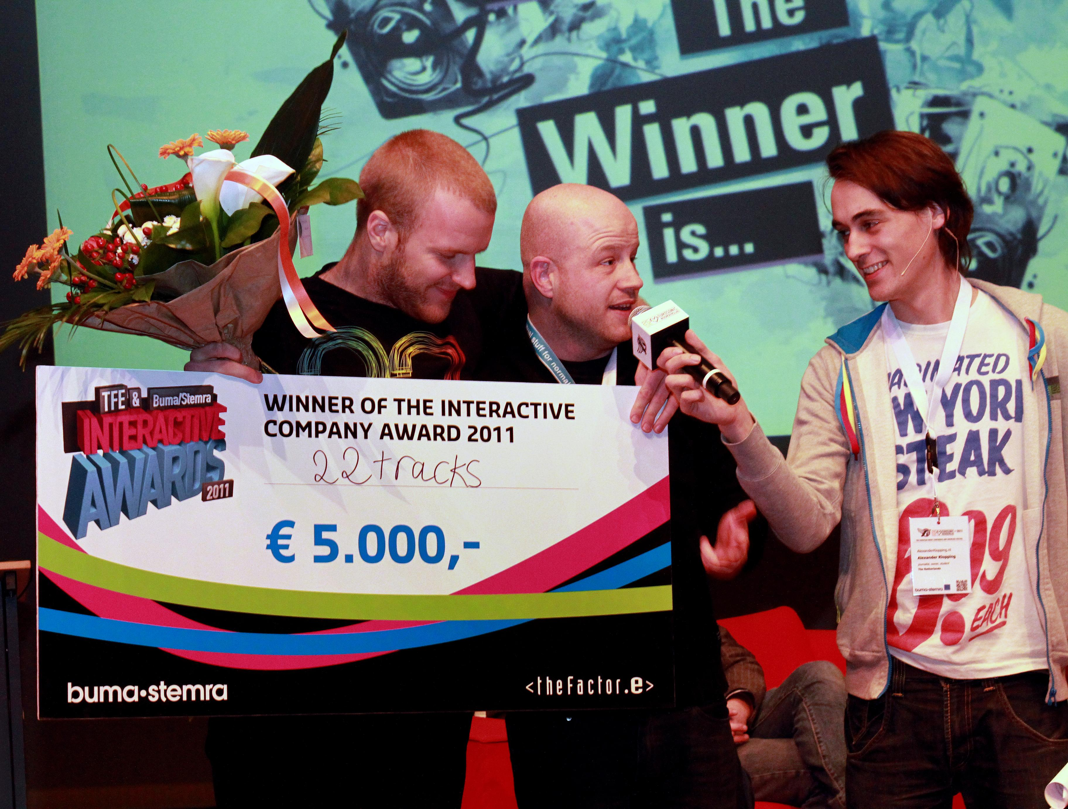 22tracks winnaar The Interactive Company Award 2011